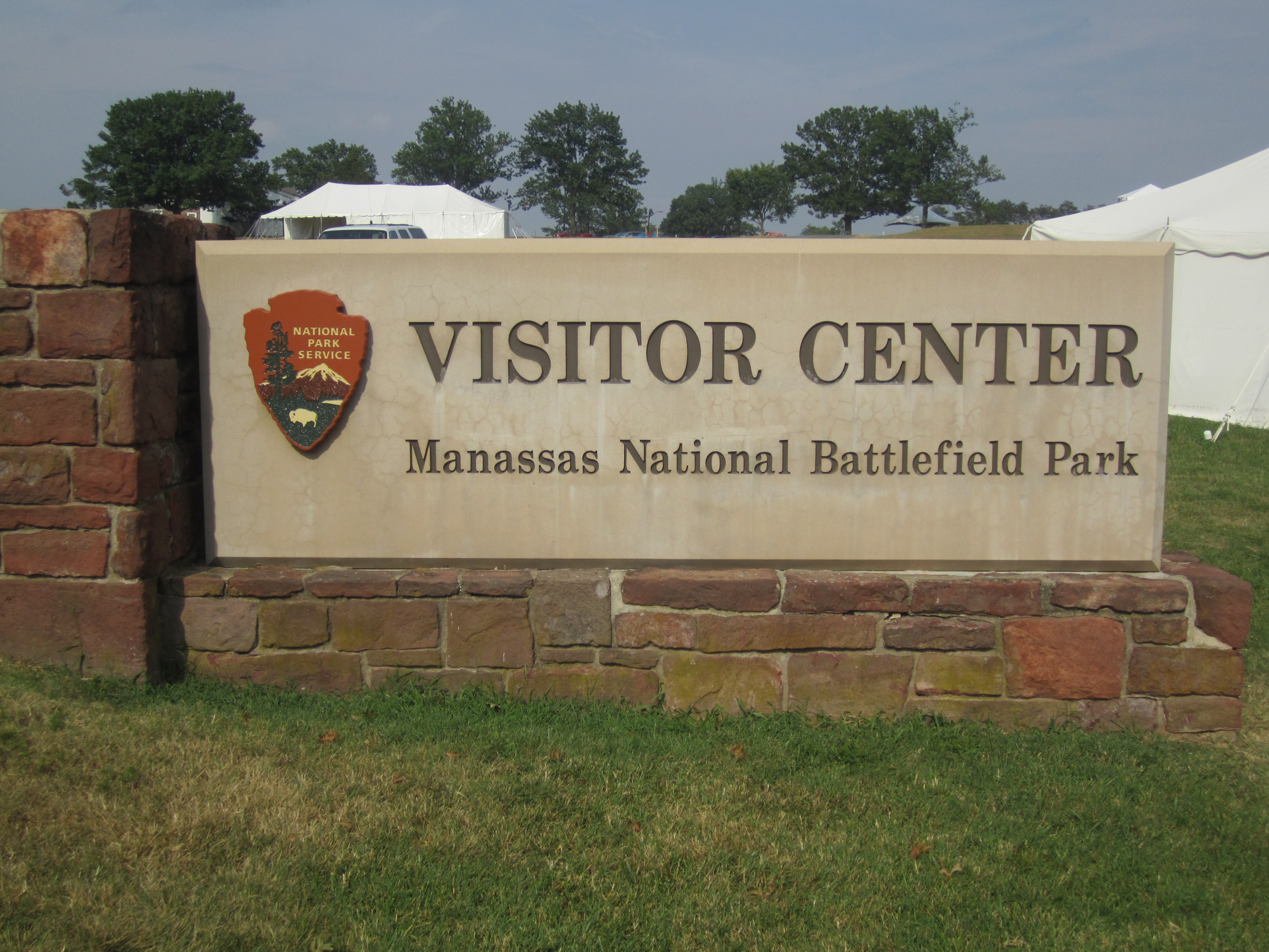 I took photo with Canon camera of sign at Visitors Center at Manassas, VA, Battlefield.